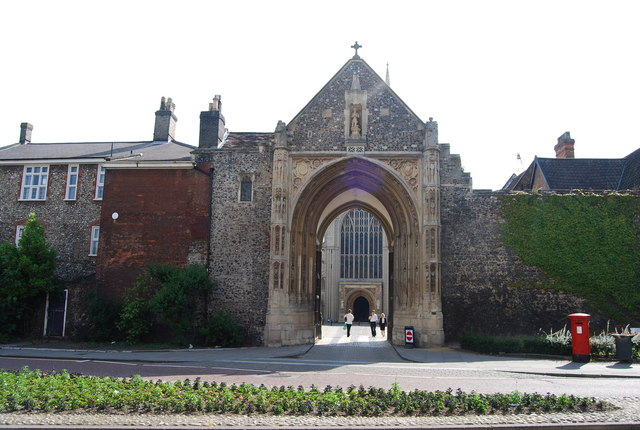 Entrance to Norwich Cathedral Grounds